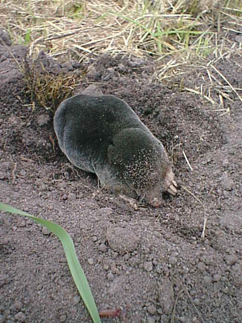 Mole Digging a Hole Mole found wandering / scratching on tarmac car park at Highoredish, placed back onto earth pile where it continued to dig.